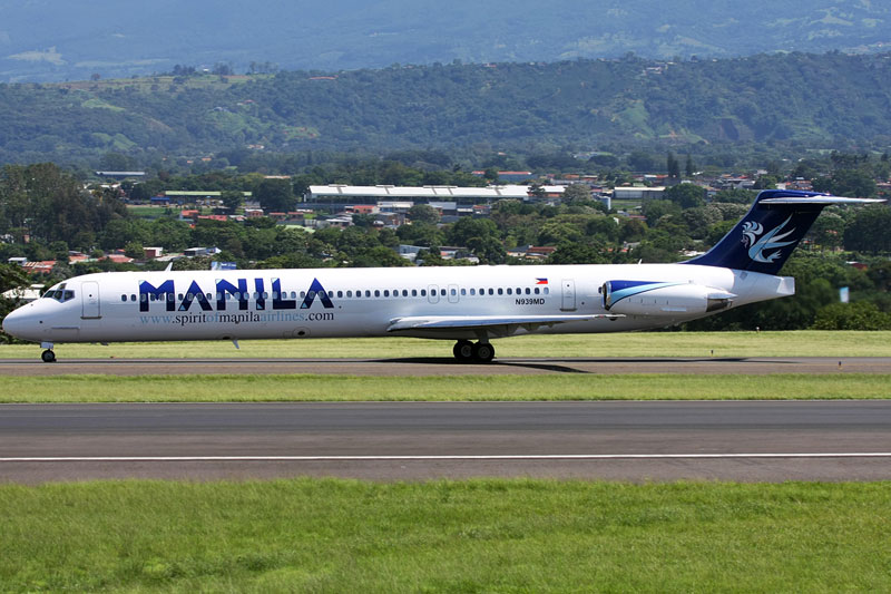 Spirit Of Manila MD-83 aircraft at San José, Costa Rica during its delivery flight. Registration: N939MD